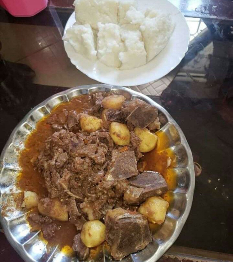 This is an image with the theme "Africa on the Move or Transport" from: Kenya